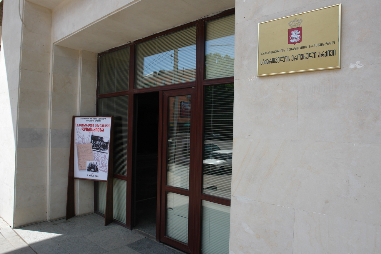 National Archives of Georgia